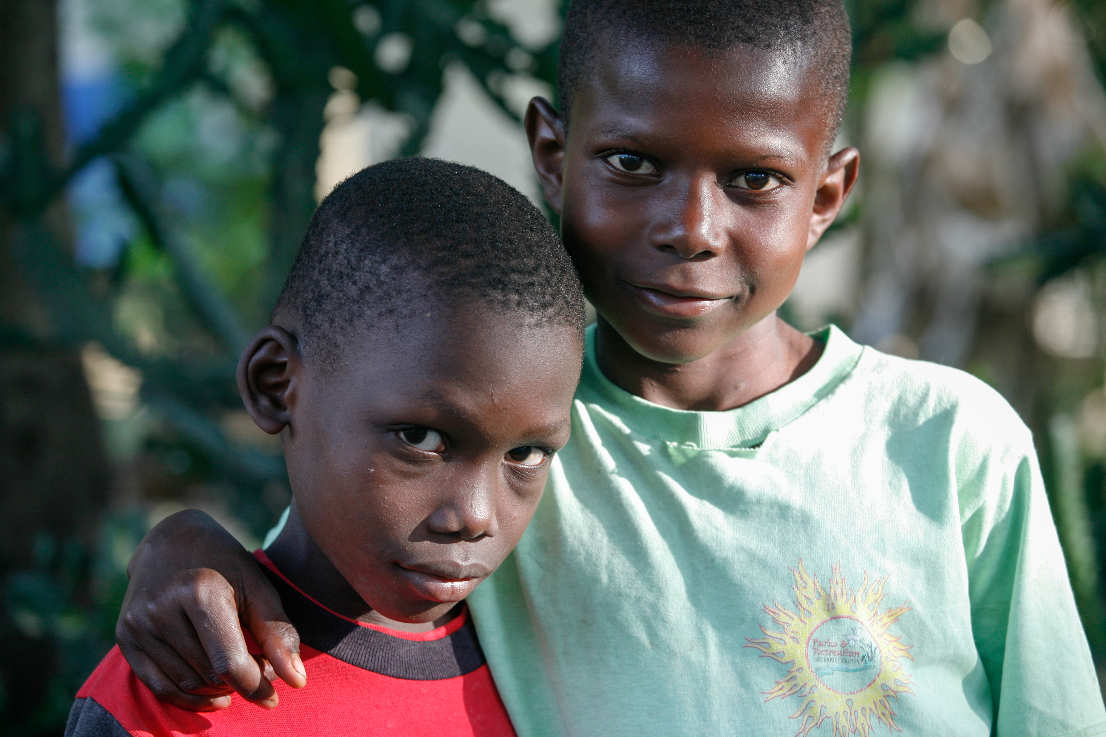 Brothers in Arms